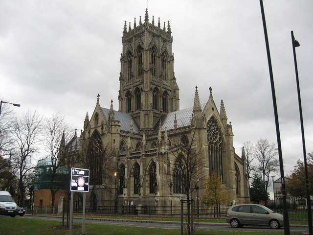 Doncaster Minster The Minster Church of Saint George, Doncaster stands at the heart of the town of Doncaster, where a church has stood for over 8 centuries. The present church was built to the designs of George Gilbert Scott between 1854-1858, after the mediaeval church was destroyed by fire in 1853. The Church was granted Minster status by the Bishop of Sheffield on 17th June 2004.